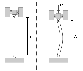 Bukled column